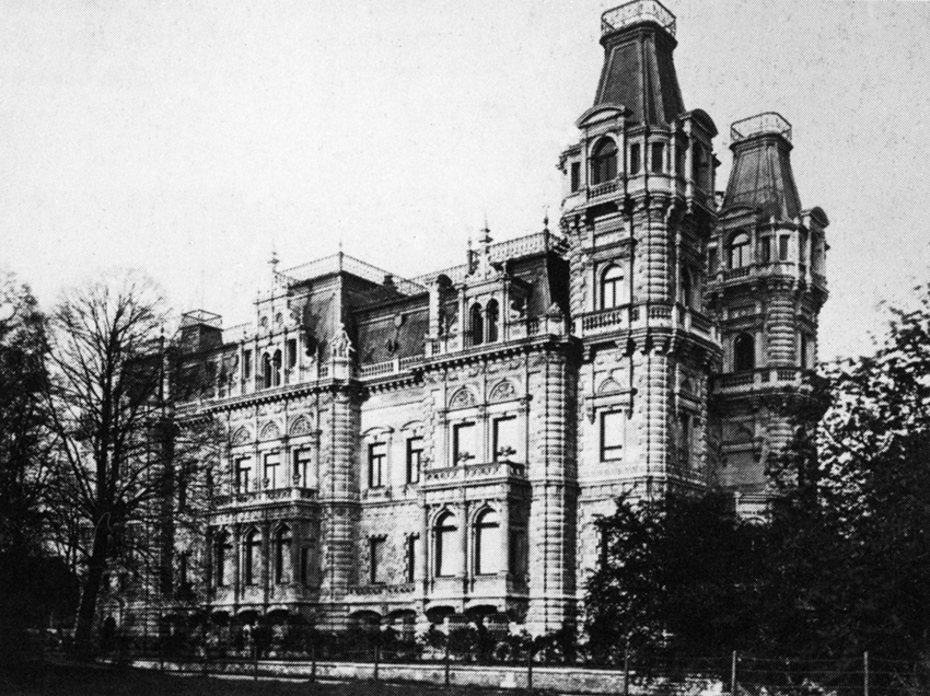 Schloss Kreyenhorst in Bremen Horn-Lehe around 1900. The neo-renaissance mansion was built in 1873 by Johann Georg Poppe for Diederich Daniel Knoop. In 1885 it was acquired by Wilhelm Rickmers, in 1912 it was demolished.